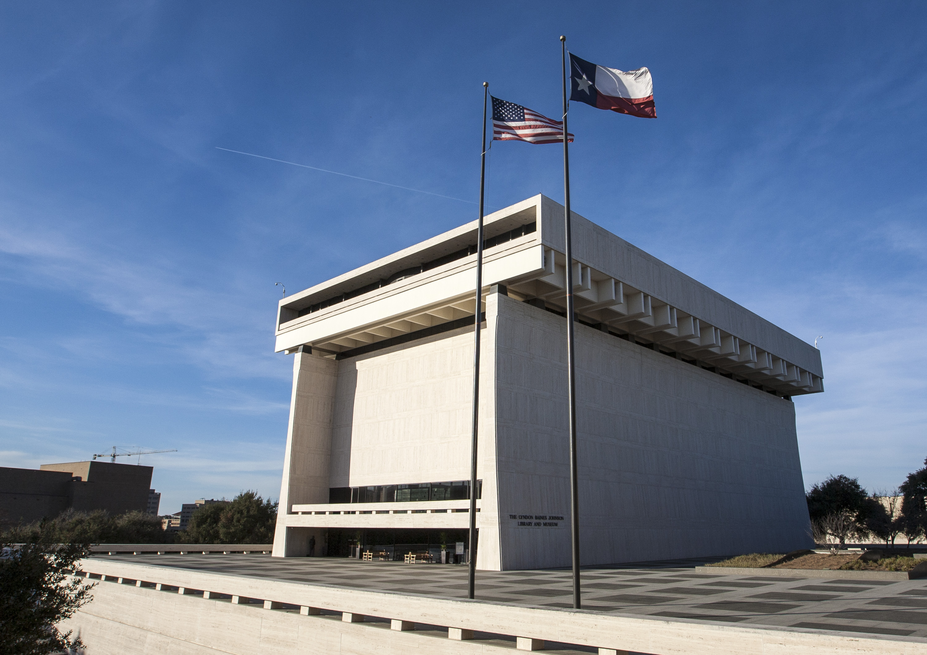 The Lyndon Baines Johnson Library and Museum located in Austin, Texas, United States in 2017.